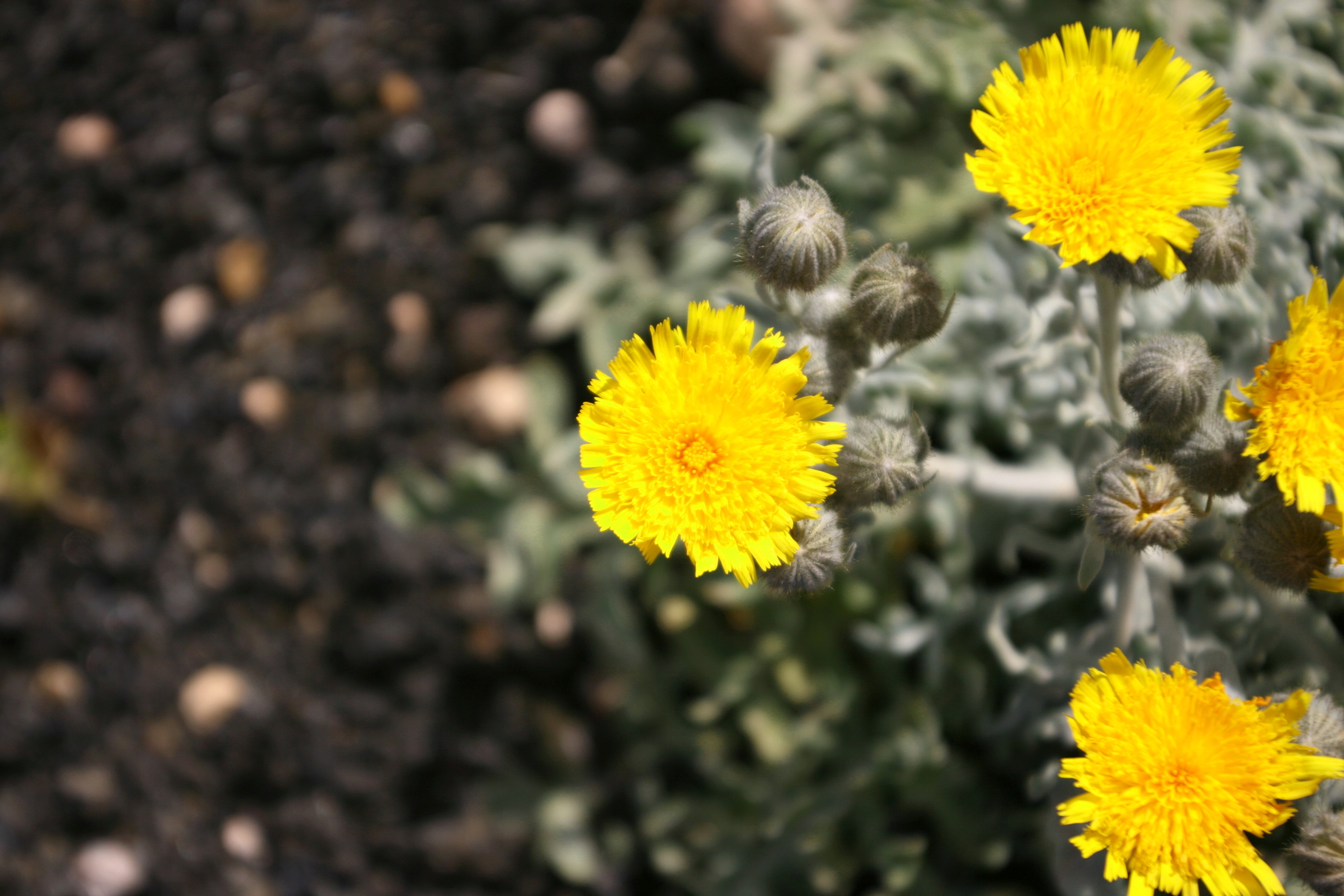 Andryala glandulosa growing at Camino del Mesón in Tías, Lanzarote, Canary Islands